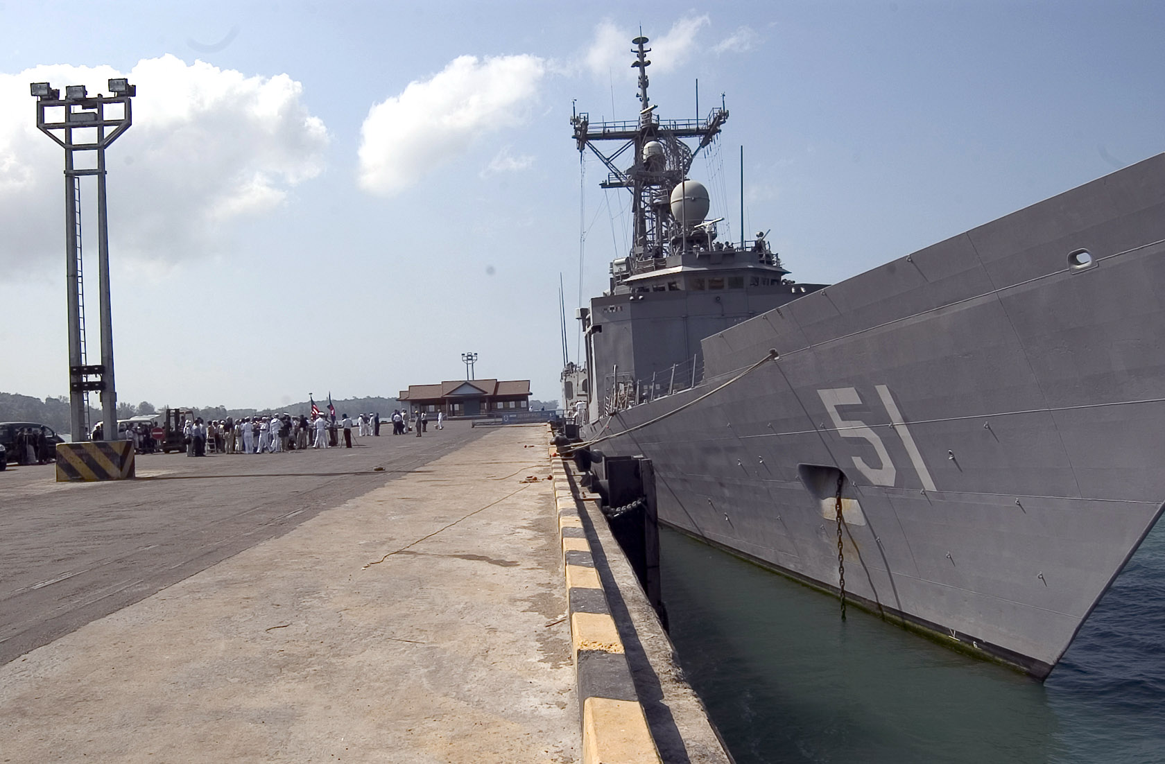 Sihanoukville, Cambodia (Feb. 9, 2007) - U.S. Ambassador to Cambodia Joseph A. Mussomeli and Commanding Officer of the guided missile frigate USS Gary (FFG 51) Cmdr. Joseph Deleon conduct a press conference with local and international news agency on the Gary's historic port visit. Gary is currently in Sihanoukville, Cambodia, marking the first visit by a U.S. Navy ship in 30 years. The crew will participate in medical assistance and community relation projects as well as professional exchanges with their Cambodian counterpart. U.S. Navy photo by Mass Communication Specialist 2nd Class Barry R. Hirayama (RELEASED)